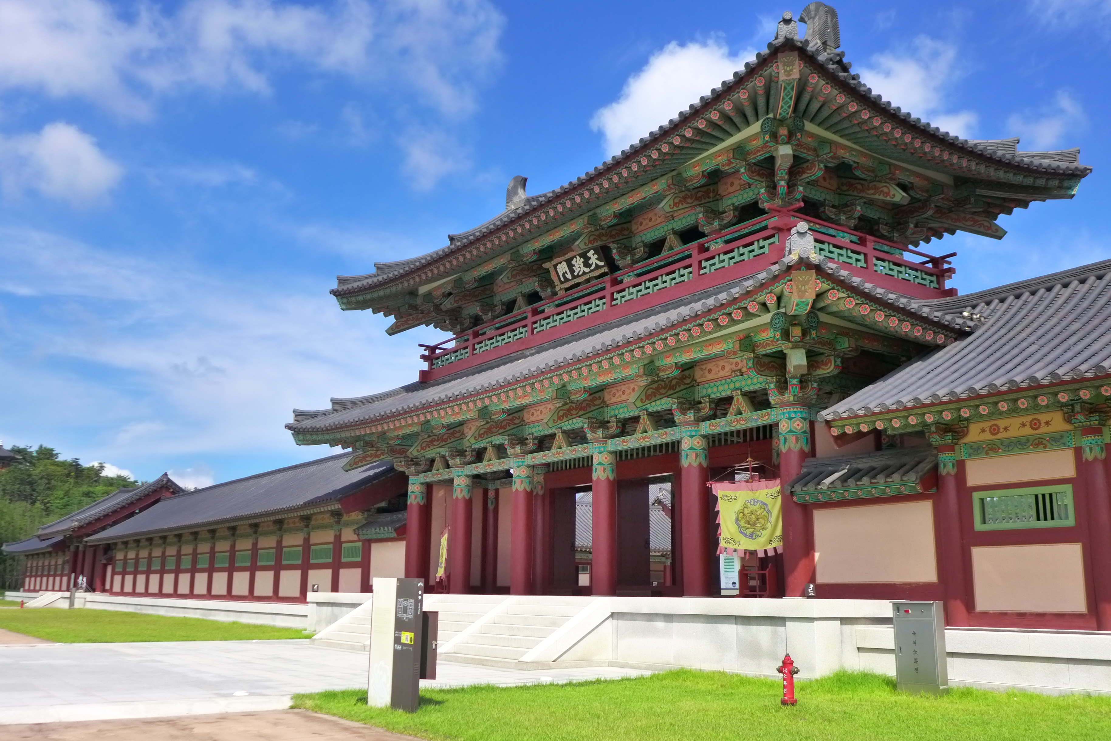 Baekje Cultural Land, Buyeo-gun, Chungcheongnam-do, South Korea